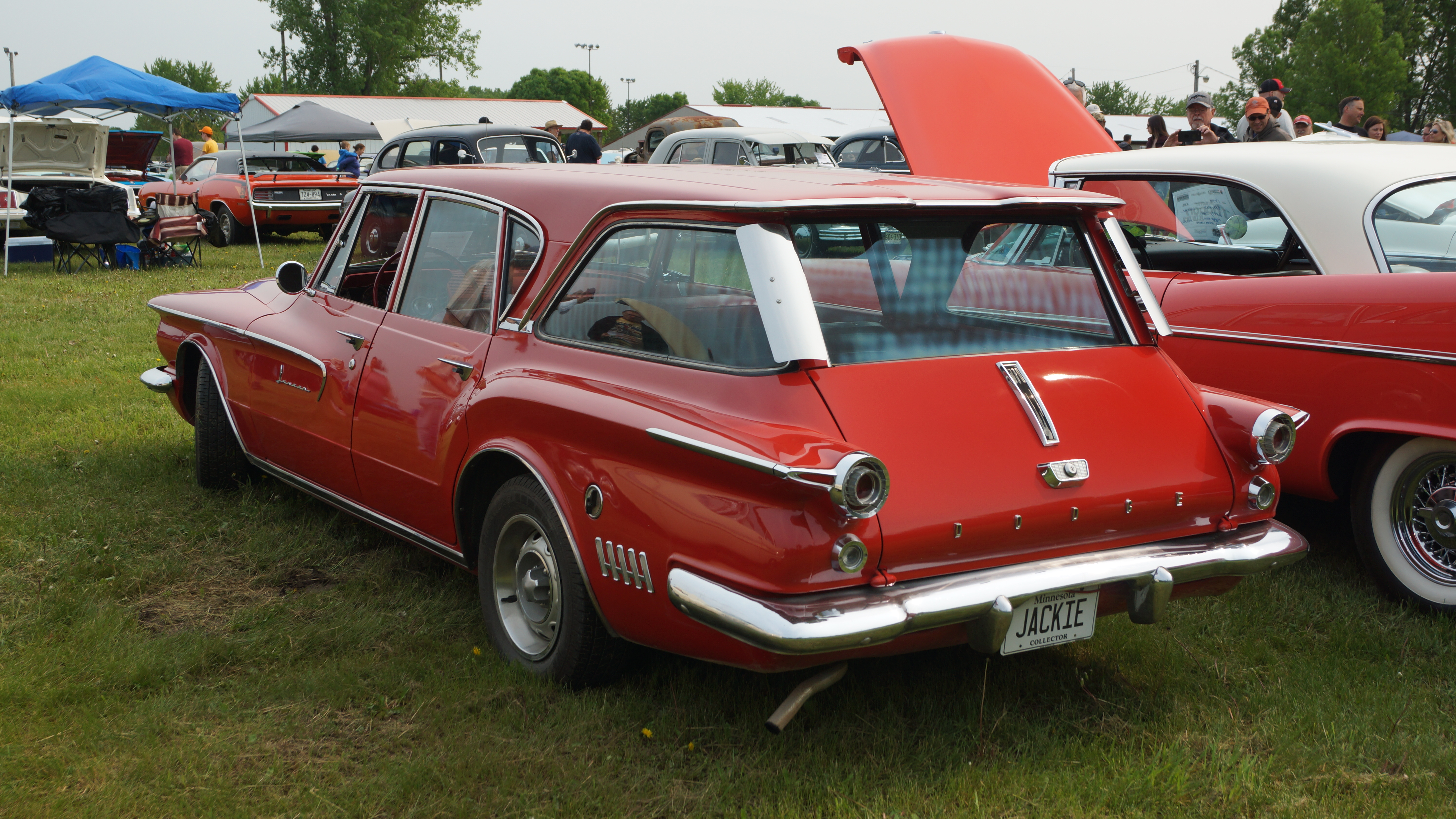 Midwest Mopars in the Park 35th Annual National Car Show & Swap Meet Washingtion County Fairgrounds Stillwater, Minnesota May 31- June 2, 2019 My step monitor clocked me at 29.2 miles of walking around the three day show. Odometer readings for each day. Friday: 8.42 Miles Saturday: 11.51 Miles Sunday: 9.27 Miles Click here for other years of Mopars in the Park. Click here for more car pictures by make Click here for Car Event pictures by year. Or here for my Car Crazy Tumblr site. Or on Twitter @DVS1mn.